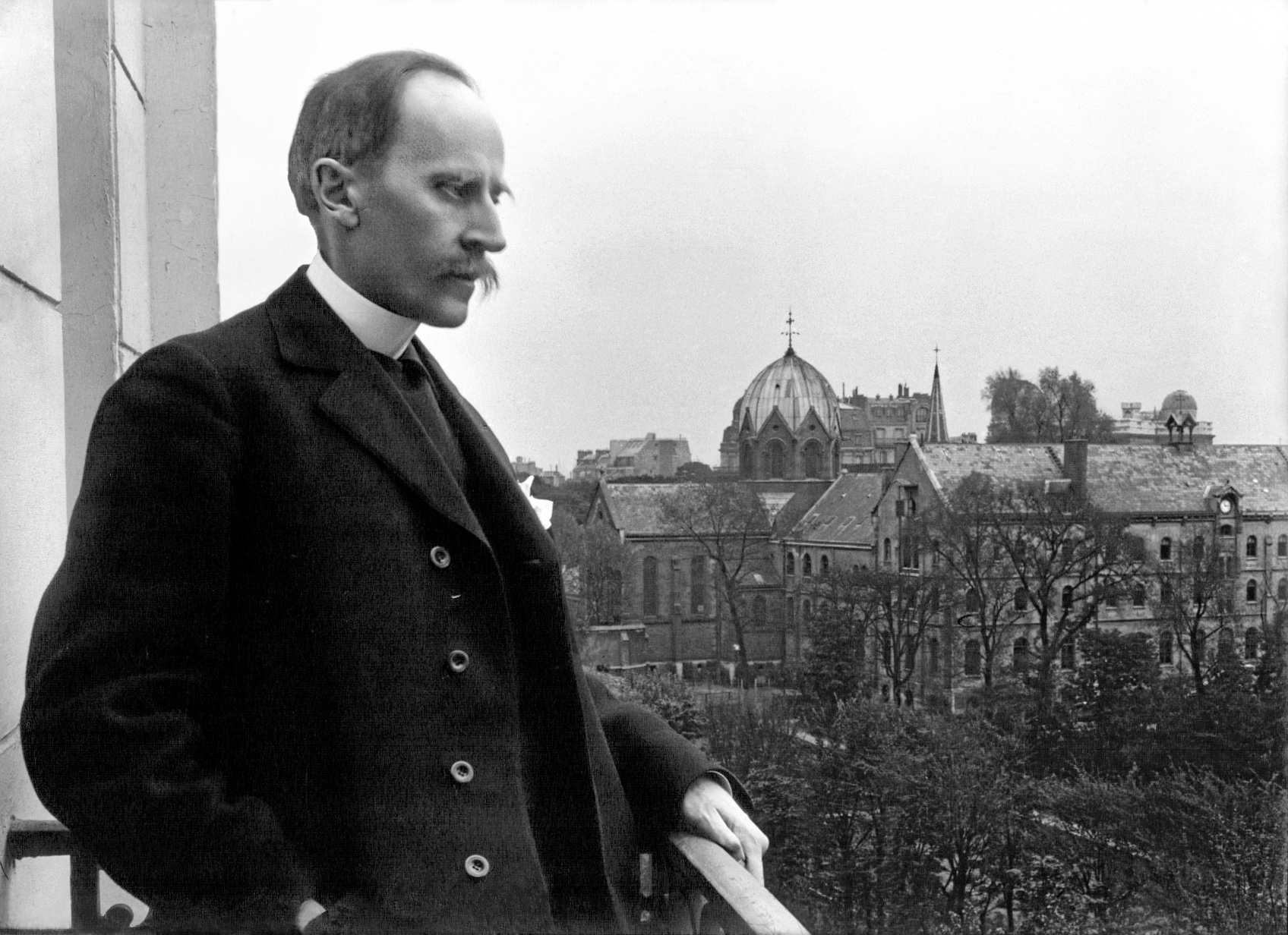 Romain Rolland on the balcony of his home (162, Boulevard de Montparnasse, Paris), 1914. View to the south-south-east. The building at the center is the old monastary of the Sisters of Visitation (68 bis, Avenue Denfert-Rocherau), and the cupola at the far right is the observatory of Paris.